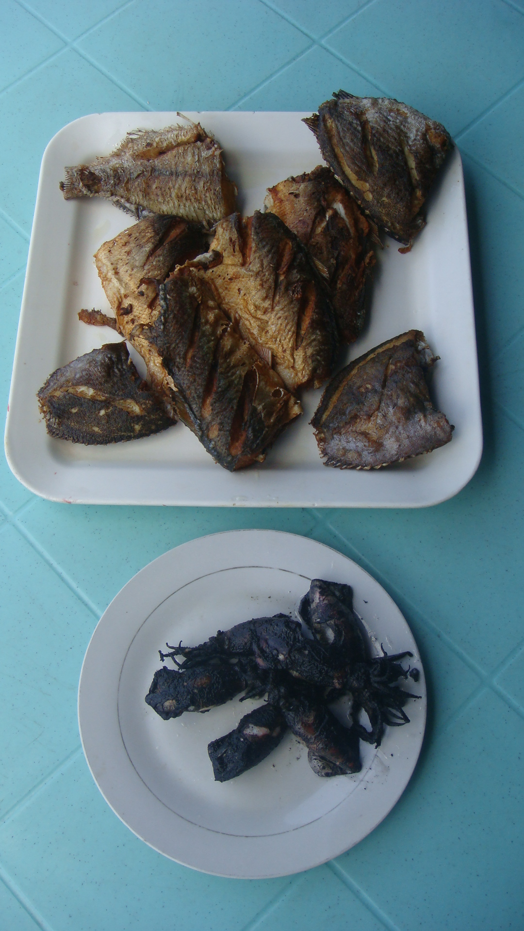 Filipino cuisine (fried Dagupan City, Pangasinan bangus or milkfish, malaga or rabbitfish and squid)